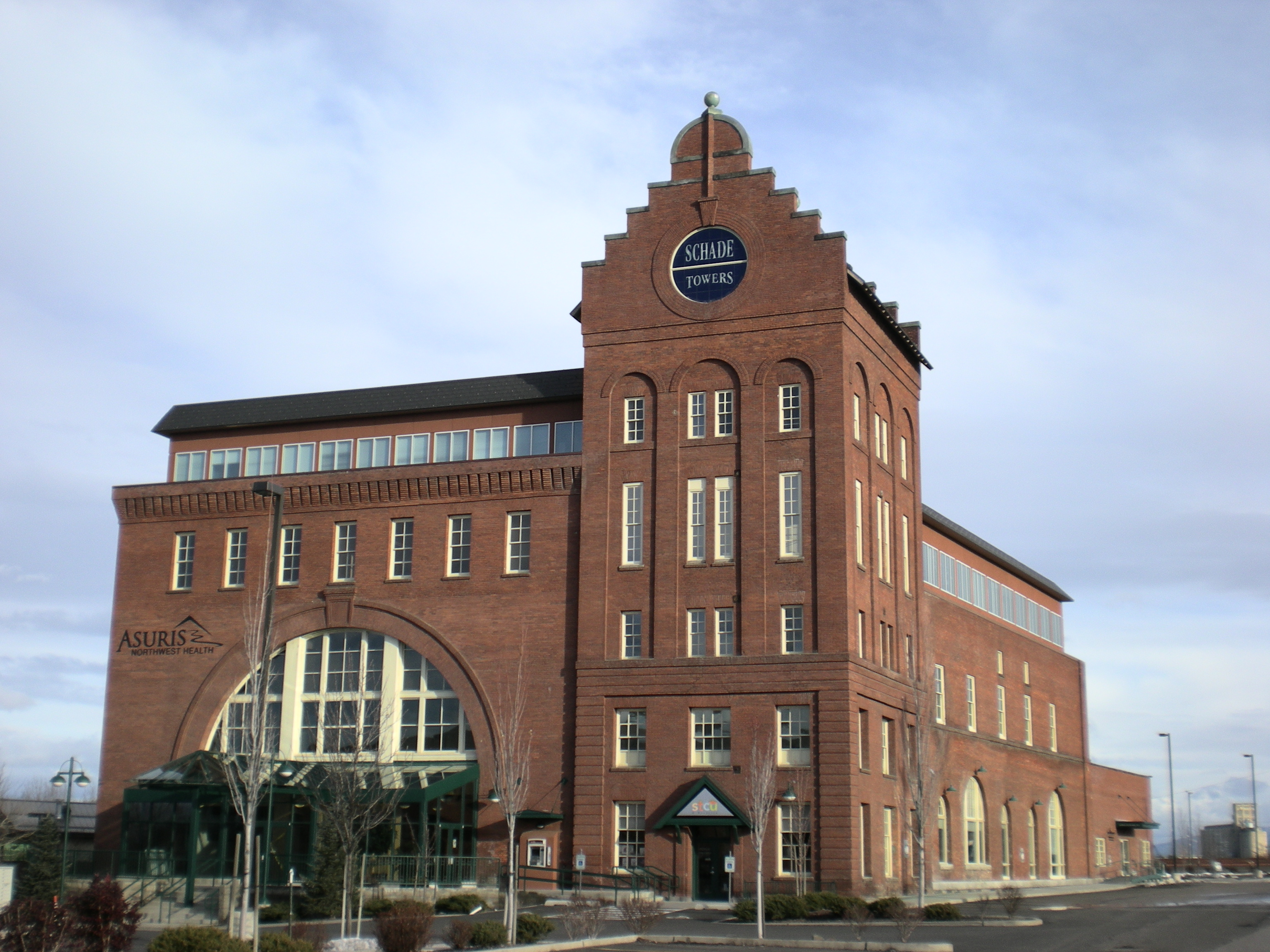 The Schade Brewery in Spokane, Washington